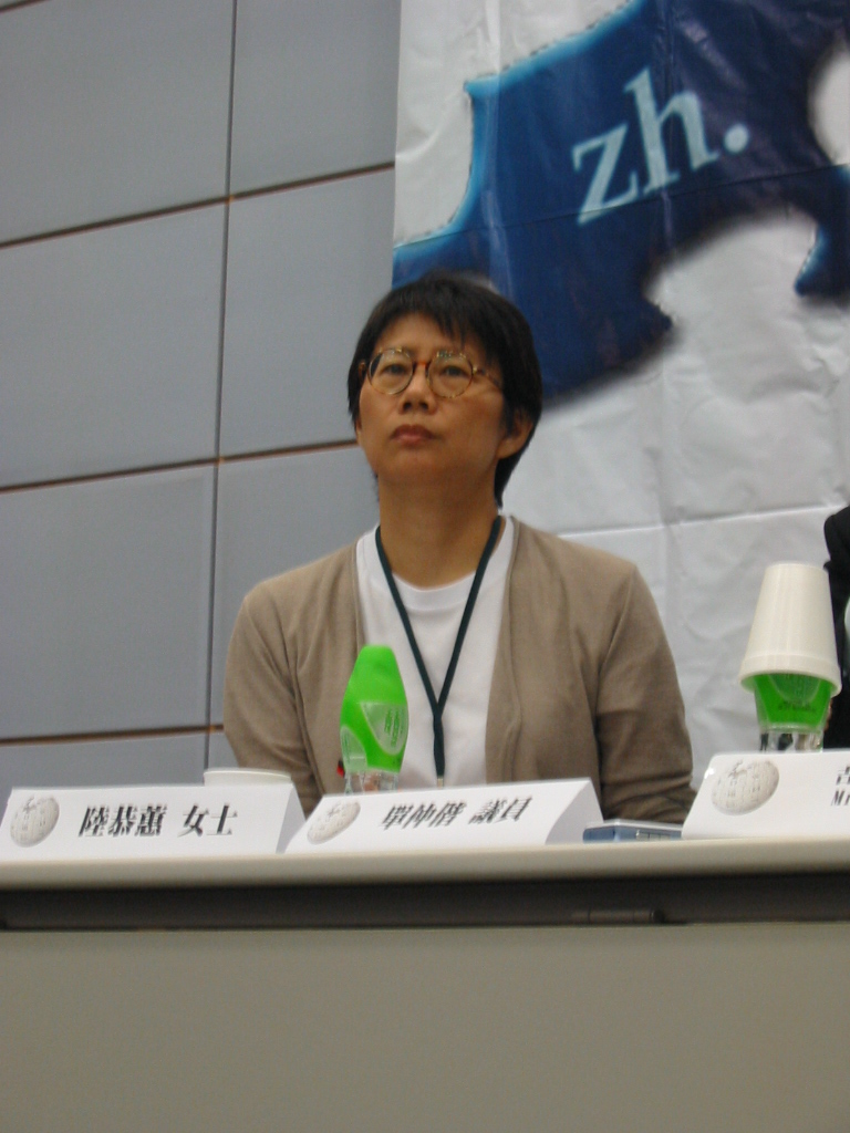 Chrinstine Loh attends the Chinese Wikimedia Conference 2006.